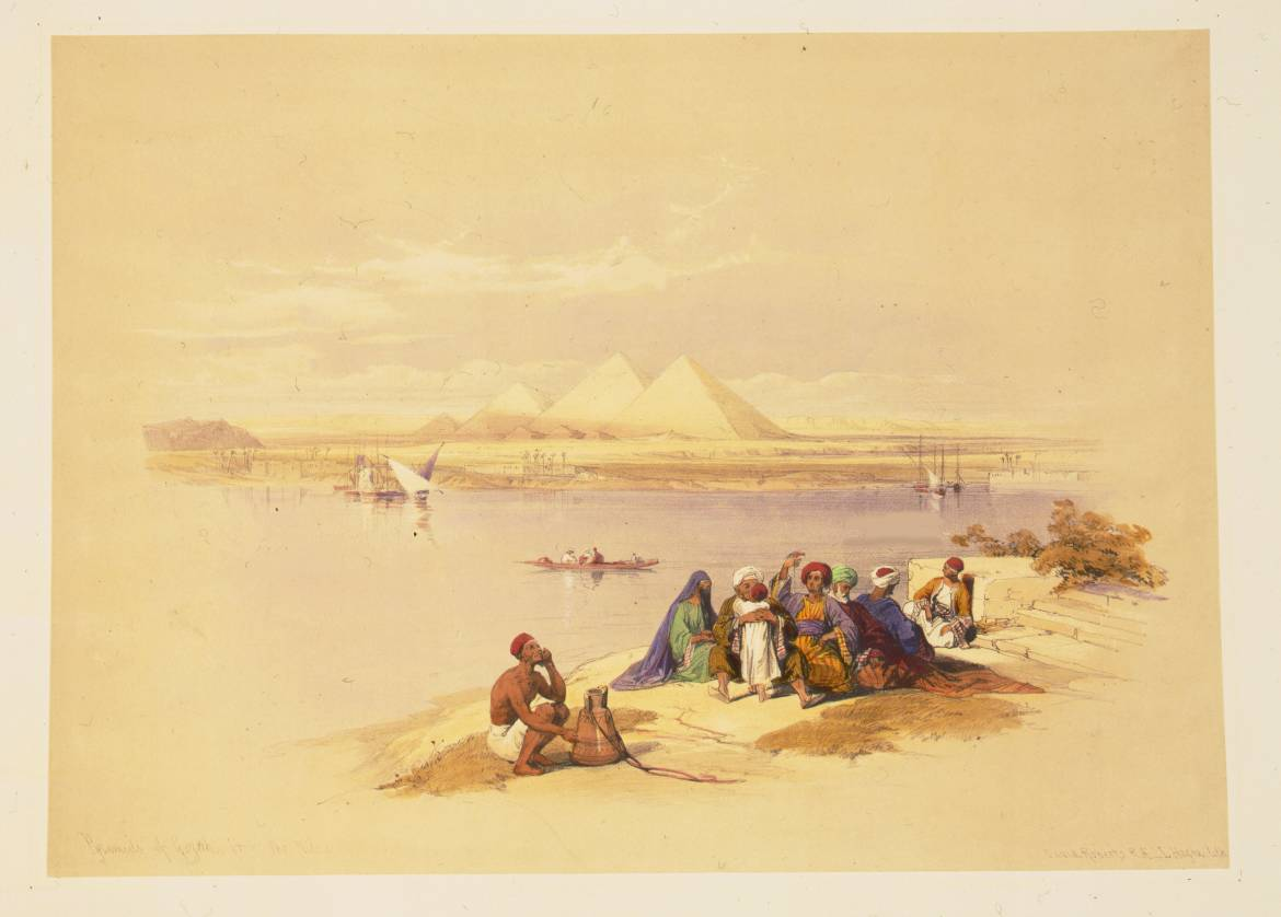 Pyramids of Gezah, from the Nile. lithograph.